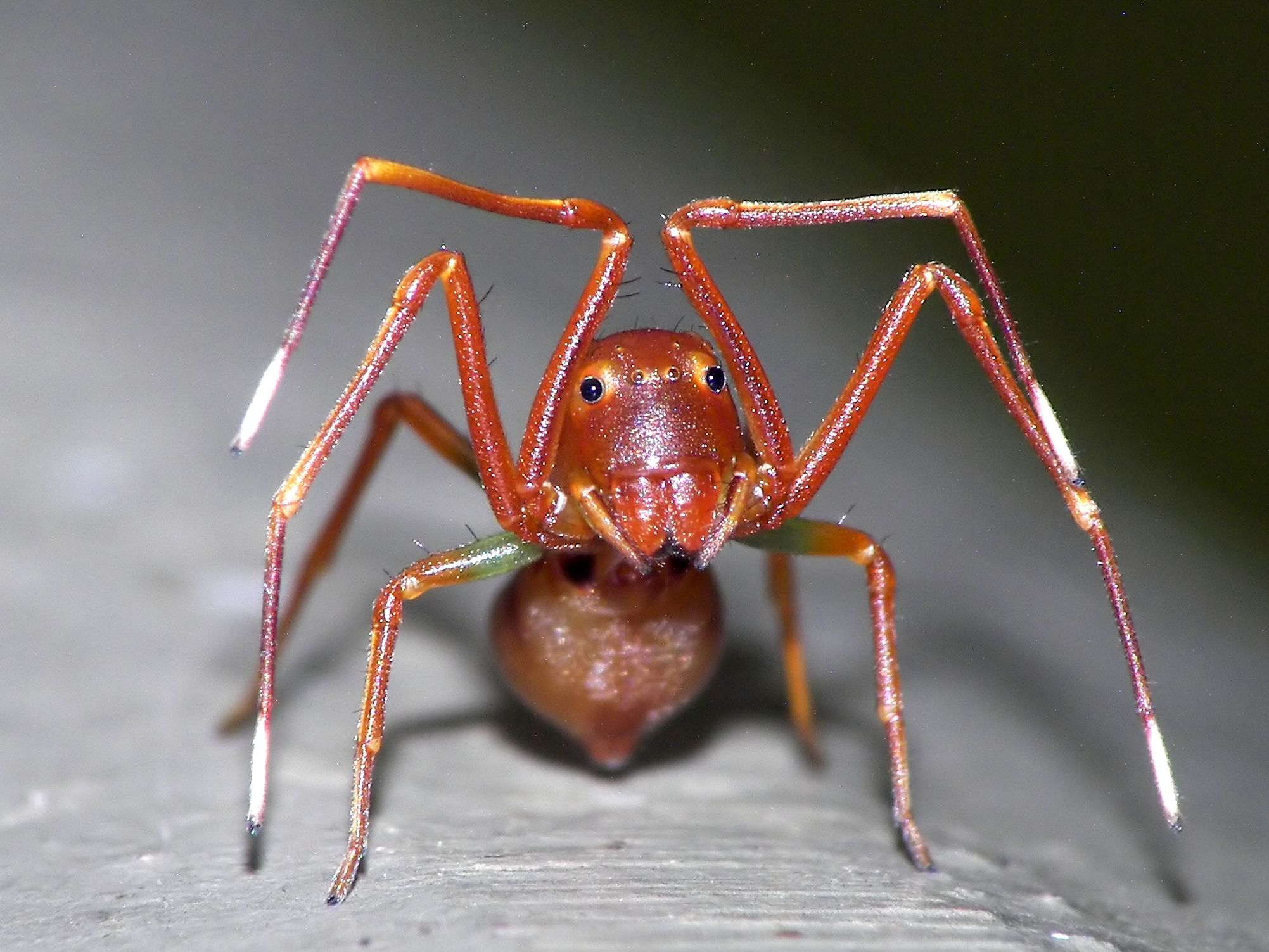 (Amyciaea lineatipes)